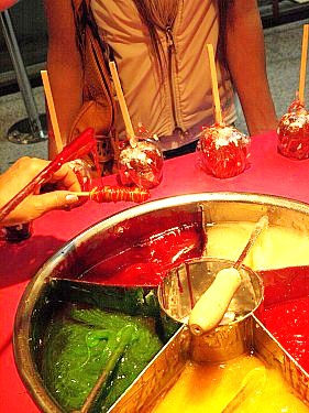 binsan's candy store cotton candy ottoman candy lollipops